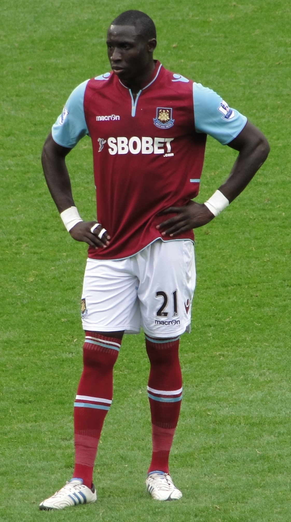 Mohamed Diamé playing for West Ham United against Southampton at The Boleyn Ground, London.